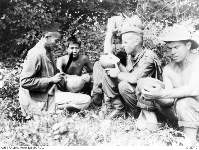 Indonesian natives were very happy to be under British rule once more. These two men show their appreciation by serving coconut juice to Trooper (Tpr) J. H. Scott of Woods Point, Vic, Kenneth Sykes, Young Men's Christian Association (YMCA) representative of Perth, WA (centre), and Tpr Joe Mealing of Coogee, NSW. Sykes was formerly in the Australian forces. He was captured in Crete, spent two and a half years as a prisoner of war (POW) in Germany and returned to Australia fourteen months ago. He was discharged from the Army and is now doing a solid job supplying the forward infantry companies with hot drinks and other comforts.